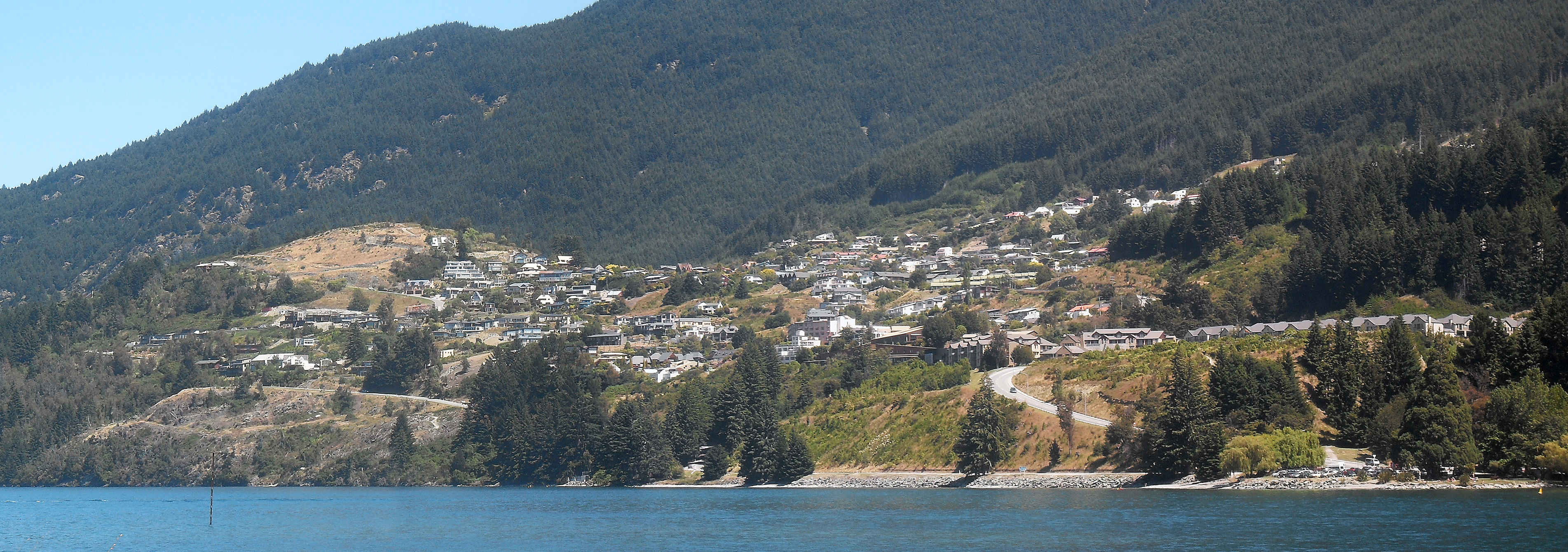 View of the suburb of Fernhill beneath Ben Lomond mountain, taken from the Queenstown Gardens.